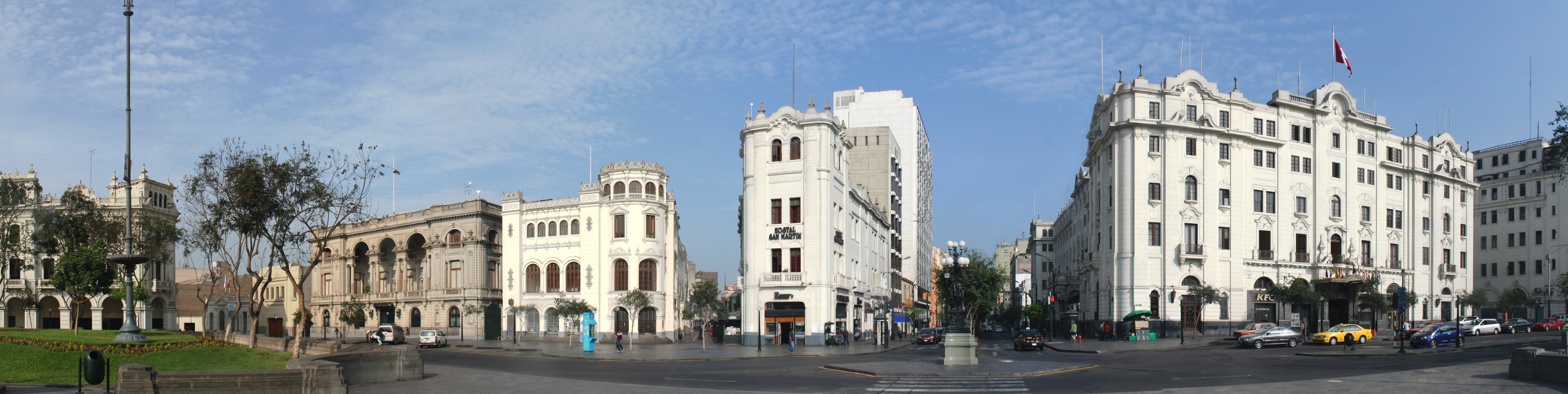 Plaza San Martín / Lima Hotel Bolivar